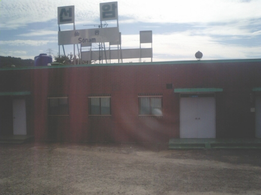 Seonam Station